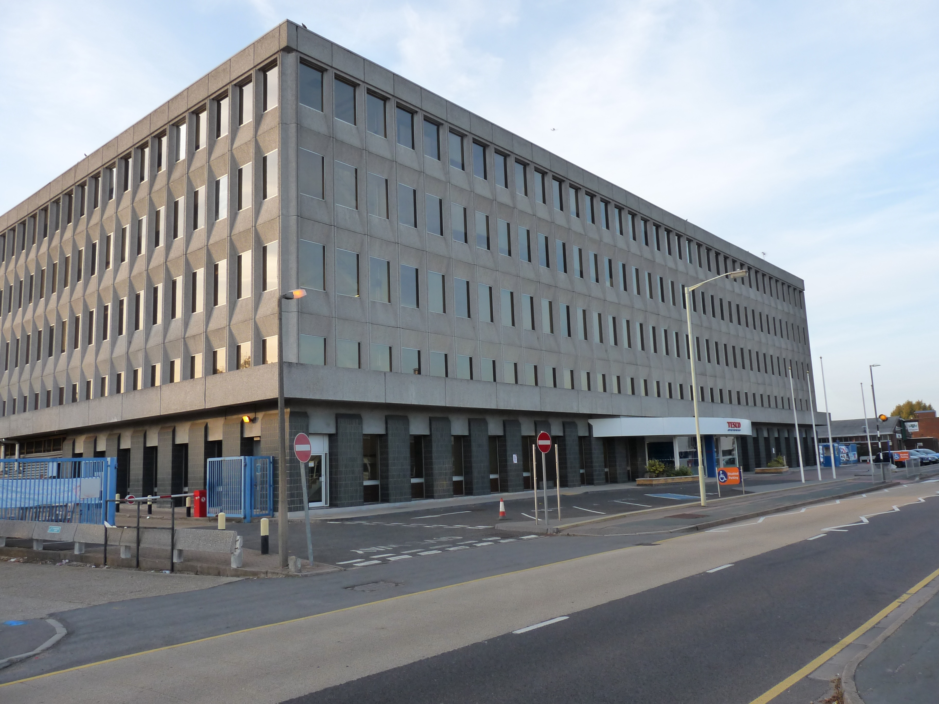 Tesco House, the head office of Tesco